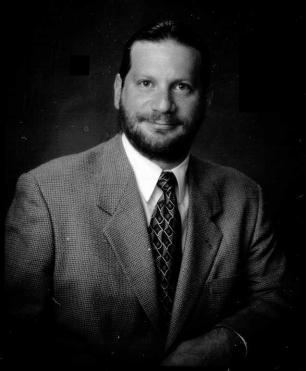 Photograph of computer scientist Lawrence "Larry" Hunter